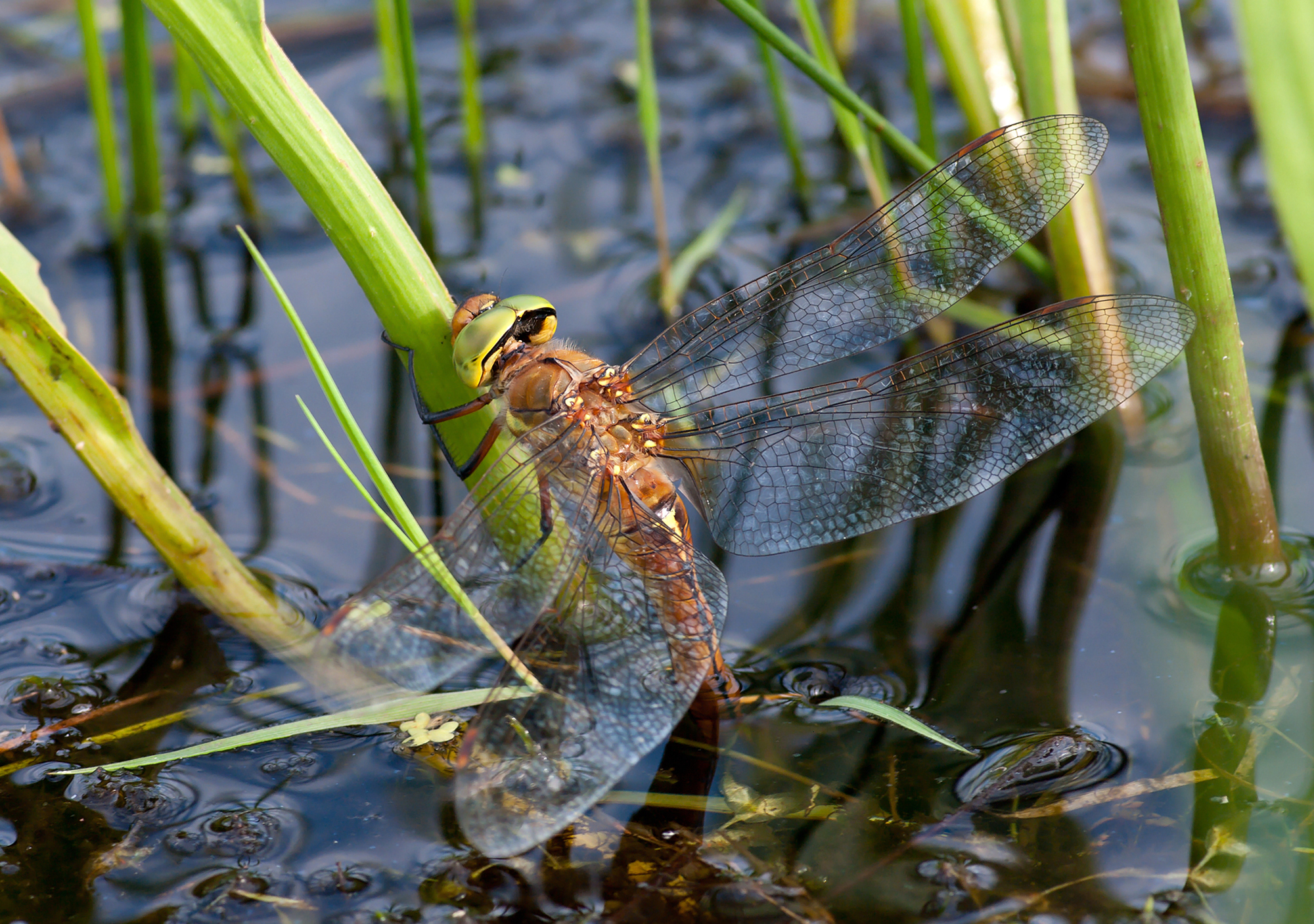 Female Green-eyed Hawker (Aeshna isoceles); laying eggs (at water plant Alisma sp.), with abdomen submerged.